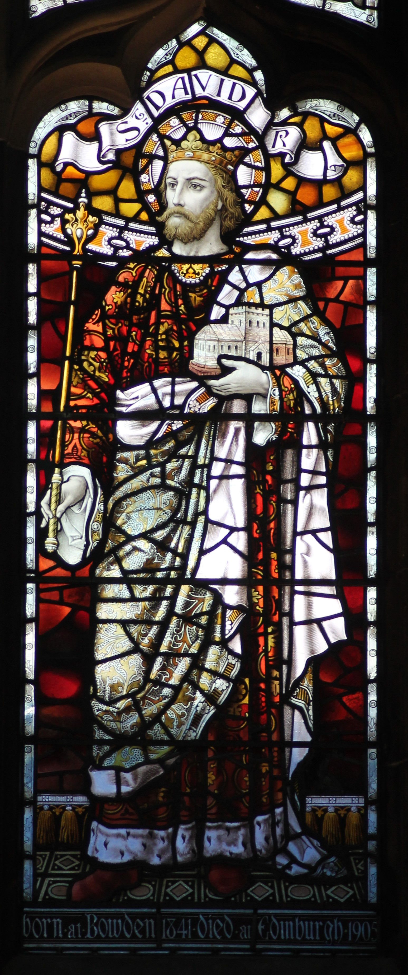 David I holding a putative model of the original church of St Giles' from the saints window of 1906 by Oscar Patterson in memory of James Jamieson in the north nave aisle of St Giles' Cathedral, Edinburgh.